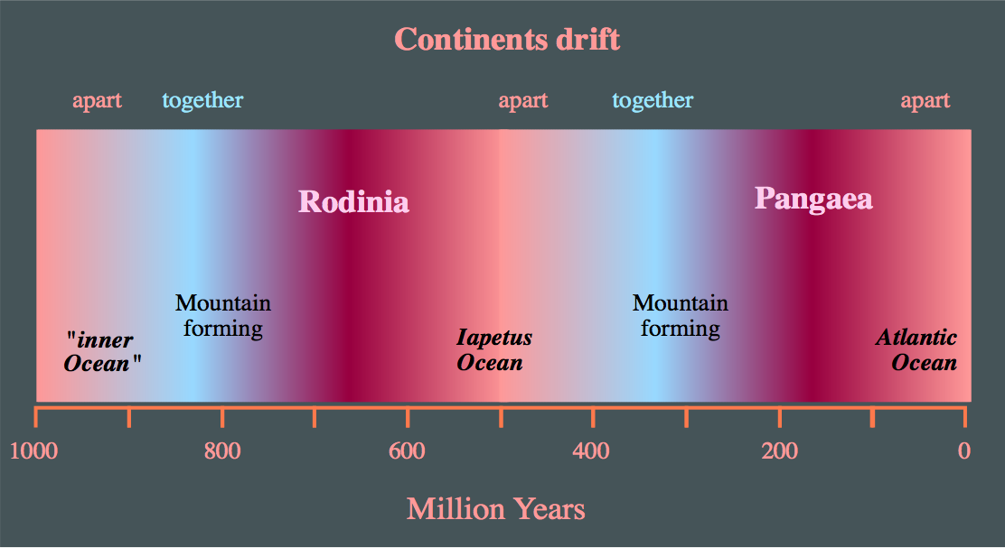 The Wilson cycle describes the cyclicity in plate tectonics by forming supercontinents (Rodinia, Pangaea) and its breakup in hundreds of millions of years. It is named after the canadian geologist John Tuzo Wilson (1908-1993).